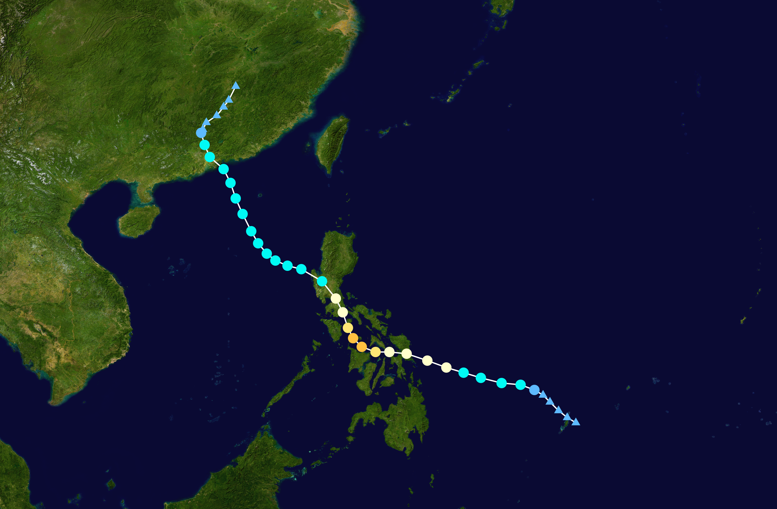 Track map of Typhoon Fengshen of the 2008 Pacific typhoon season. The points show the location of the storm at 6-hour intervals. The colour represents the storm's maximum sustained wind speeds as classified in the Saffir–Simpson scale (see below), and the shape of the data points represent the nature of the storm, according to the legend below. Saffir–Simpson scale Tropical depression≤38 mph≤62 km/h Category 3111–129 mph178–208 km/h Tropical storm39–73 mph63–118 km/h Category 4130–156 mph209–251 km/h Category 174–95 mph119–153 km/h Category 5≥157 mph≥252 km/h Category 296–110 mph154–177 km/h Unknown Storm type Tropical cyclone Subtropical cyclone Extratropical cyclone / Remnant low / Tropical disturbance / Monsoon depression